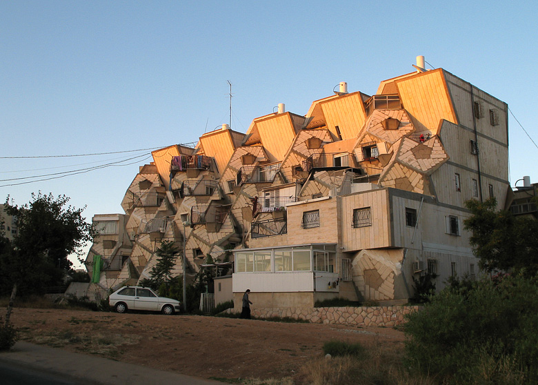 Building in Ramot Polin Neighborhood, Jerusalem, Israel